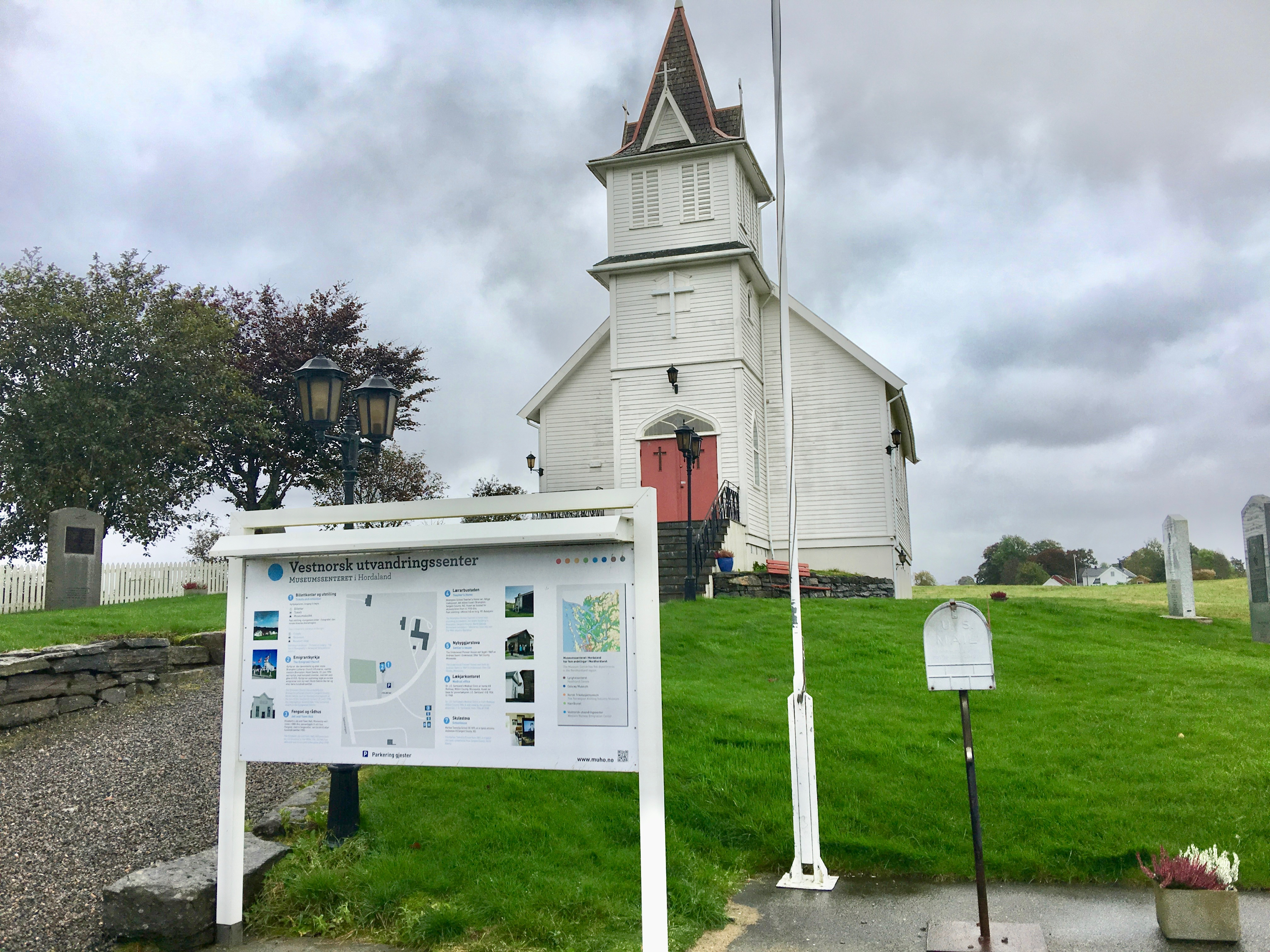 Information board by the "Emigrantkyrkja/Emigrantkirken" (former Brampton Lutheran Church, North Dakota) moved 1996 to "Vestnorsk utvandringssenter/utvandrarsenter" (Western Norway Emigration Center) in Radøy, Hordaland, Norway. Photo 2017-10-03.